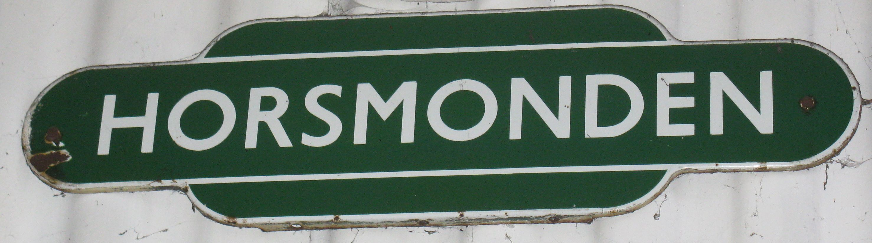 The totem from Horsmonden railway station